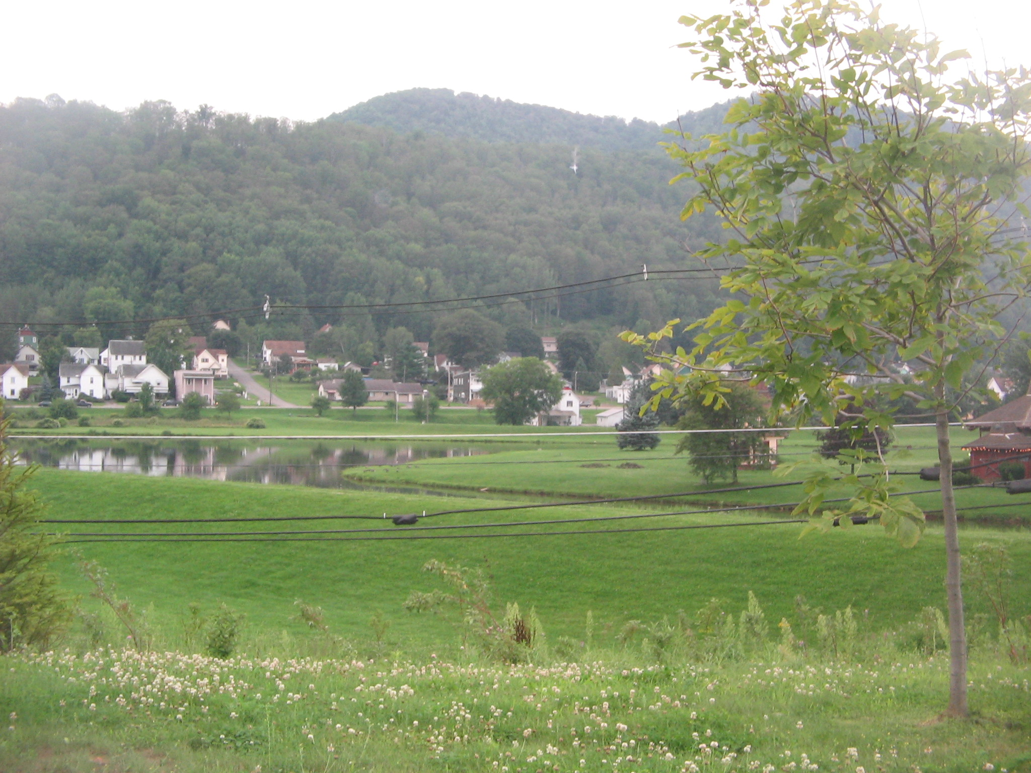 Confluence of the West Branch Pine Creek (right) and Pine Creek in the borough of Galeton in Potter County, Pennsylvania, USA.